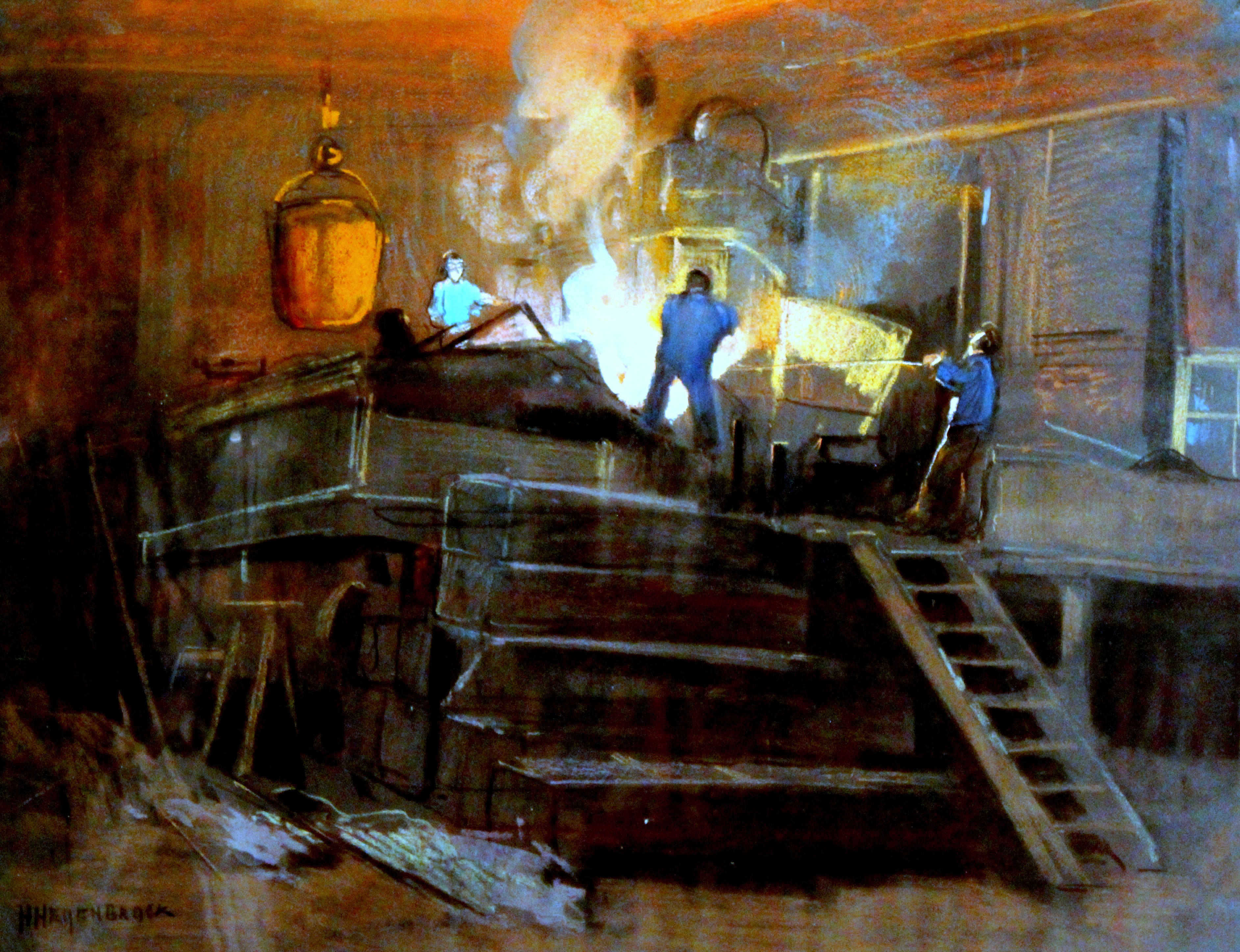 electro steelmelter, Sweden, pastel approximately 1925 by H. Heijenbrock